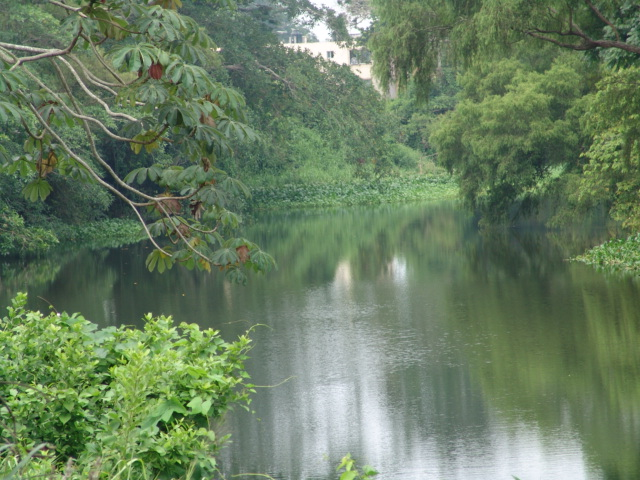 Jamapa river near "Casa Blanca" town, in Veracruz, México.